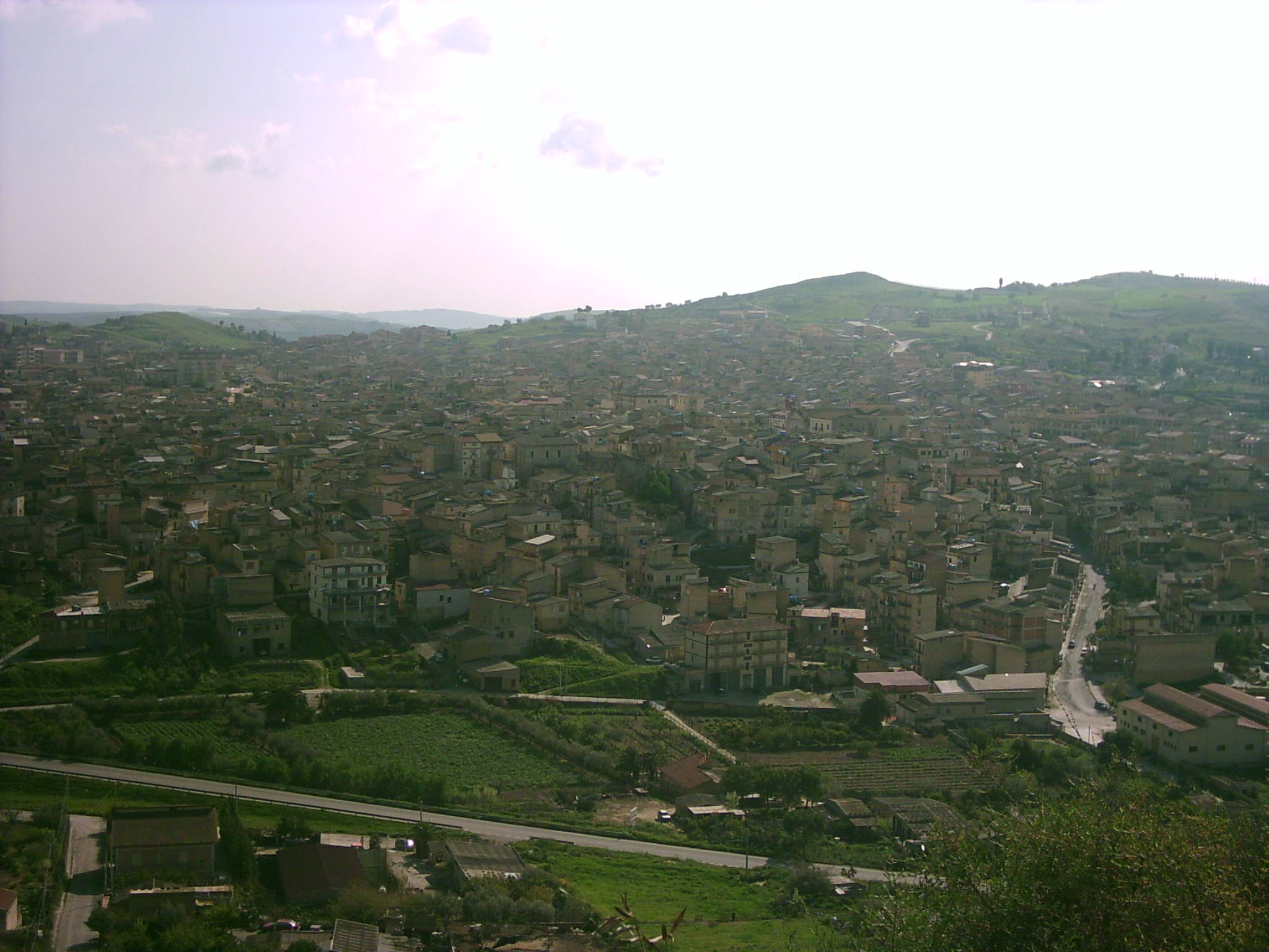 View of Riesi